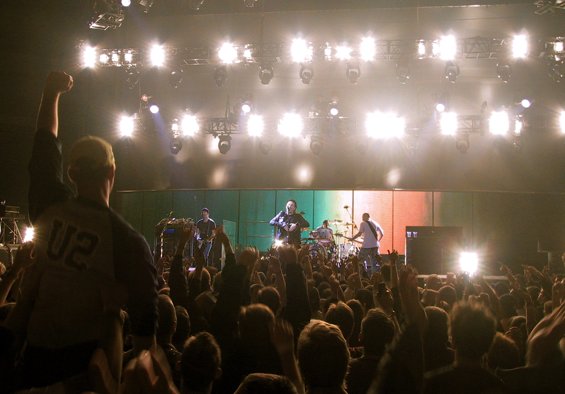 U2 in Kansas City, 2001.